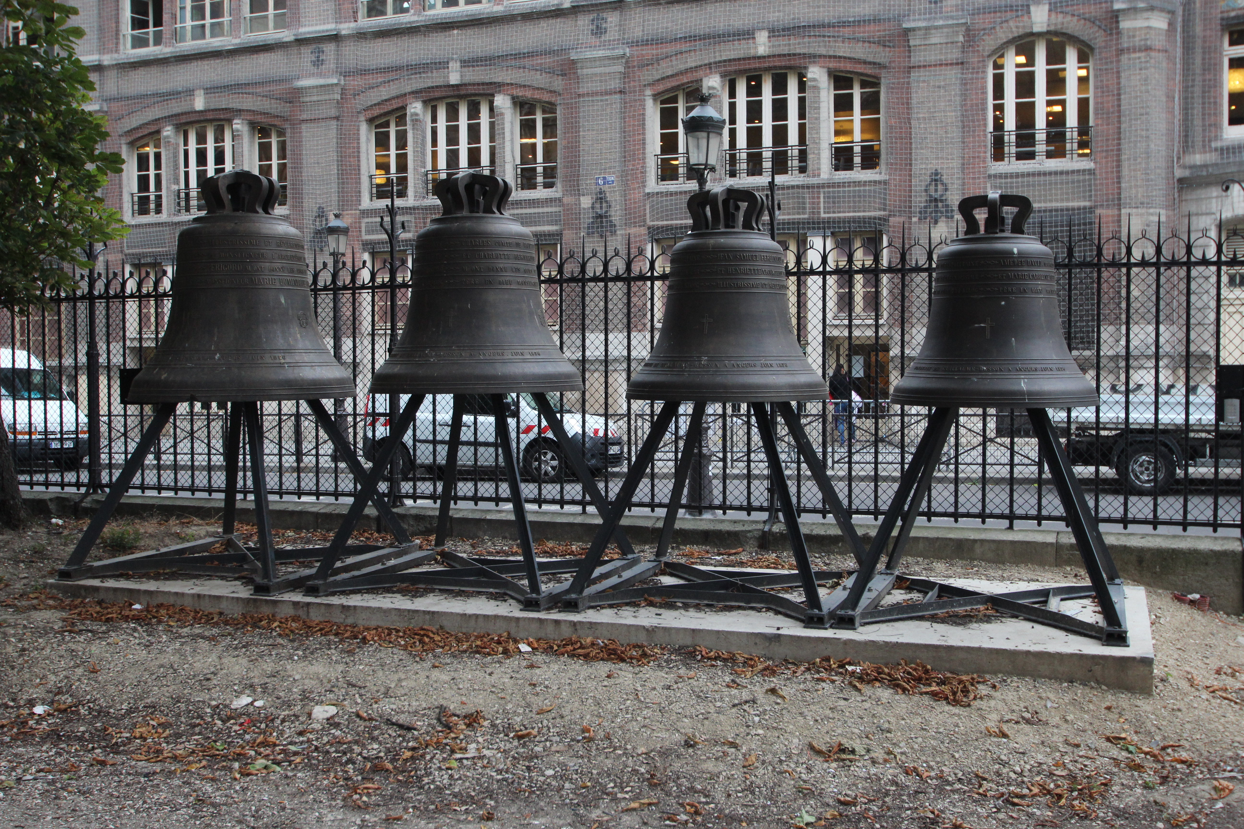 Old bells of Notre-Dame de Paris presented at the back of the cathedral in Paris, France.